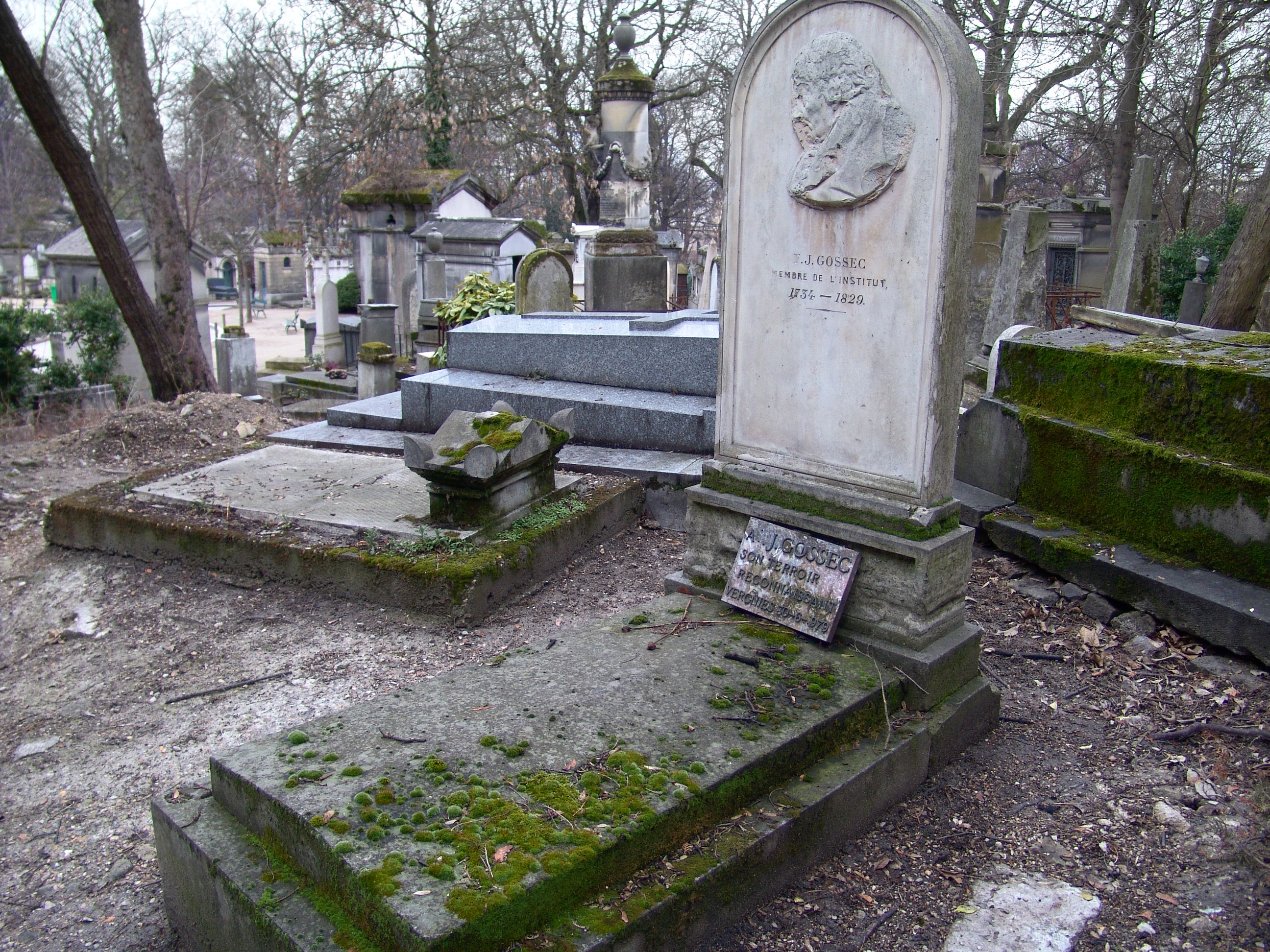 Tomb of François Gossec at "Pére Lachaise" Paris - Signed marble medallion S. J. Brown f. 1829